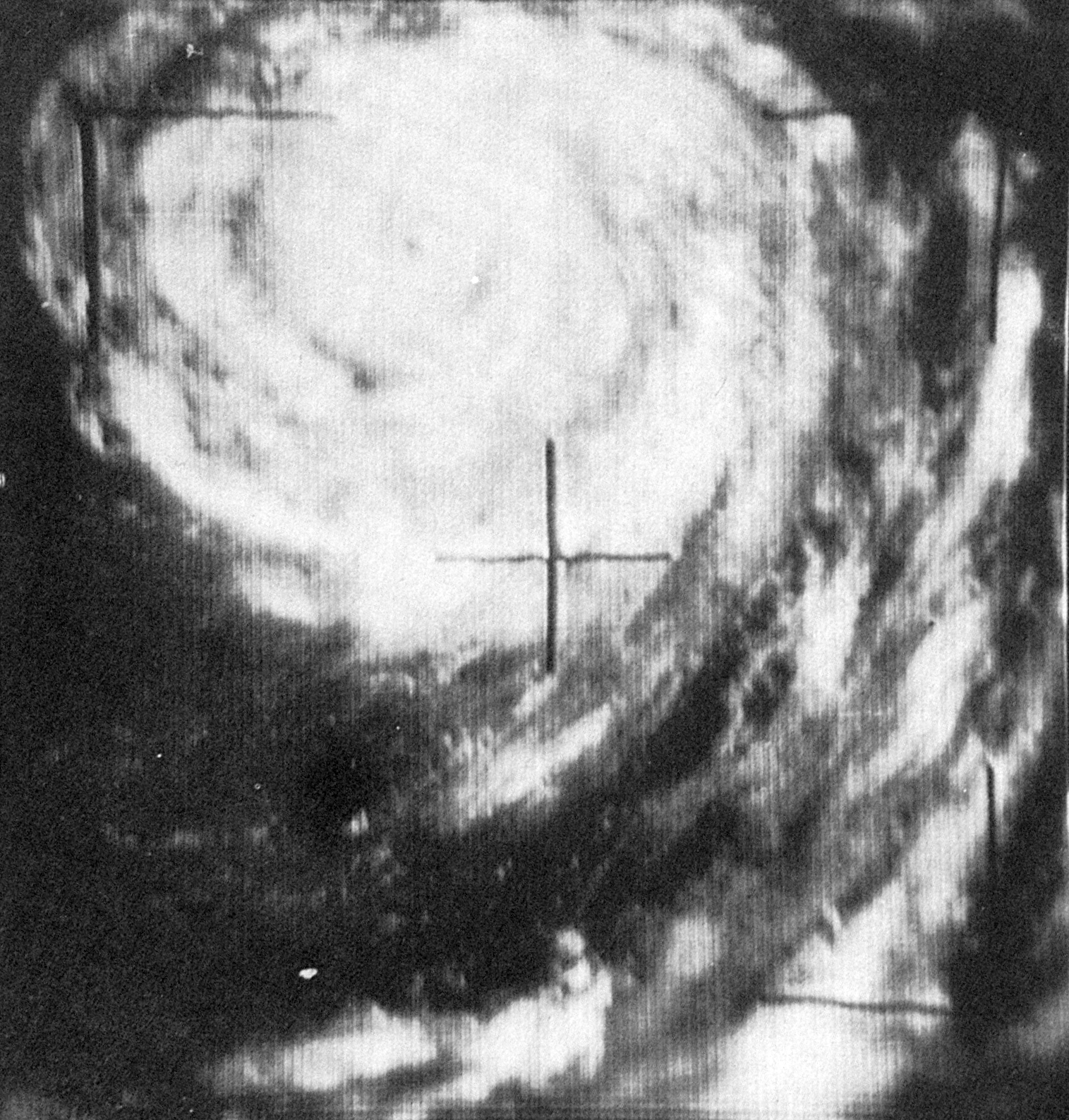 TIROS V image of Typhoon Ruth showing well-defined eye. Approximately 300 miles south-southeast of Tokyo. Winds were at 125 knots at time of photo.